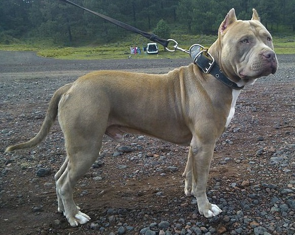 Pit Bull Bully amstaff. 1 years old. Male. Name: Camus. Dog breed. Pitbull